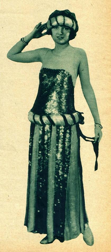 Eleanor Boardman, from a 1923 publication.